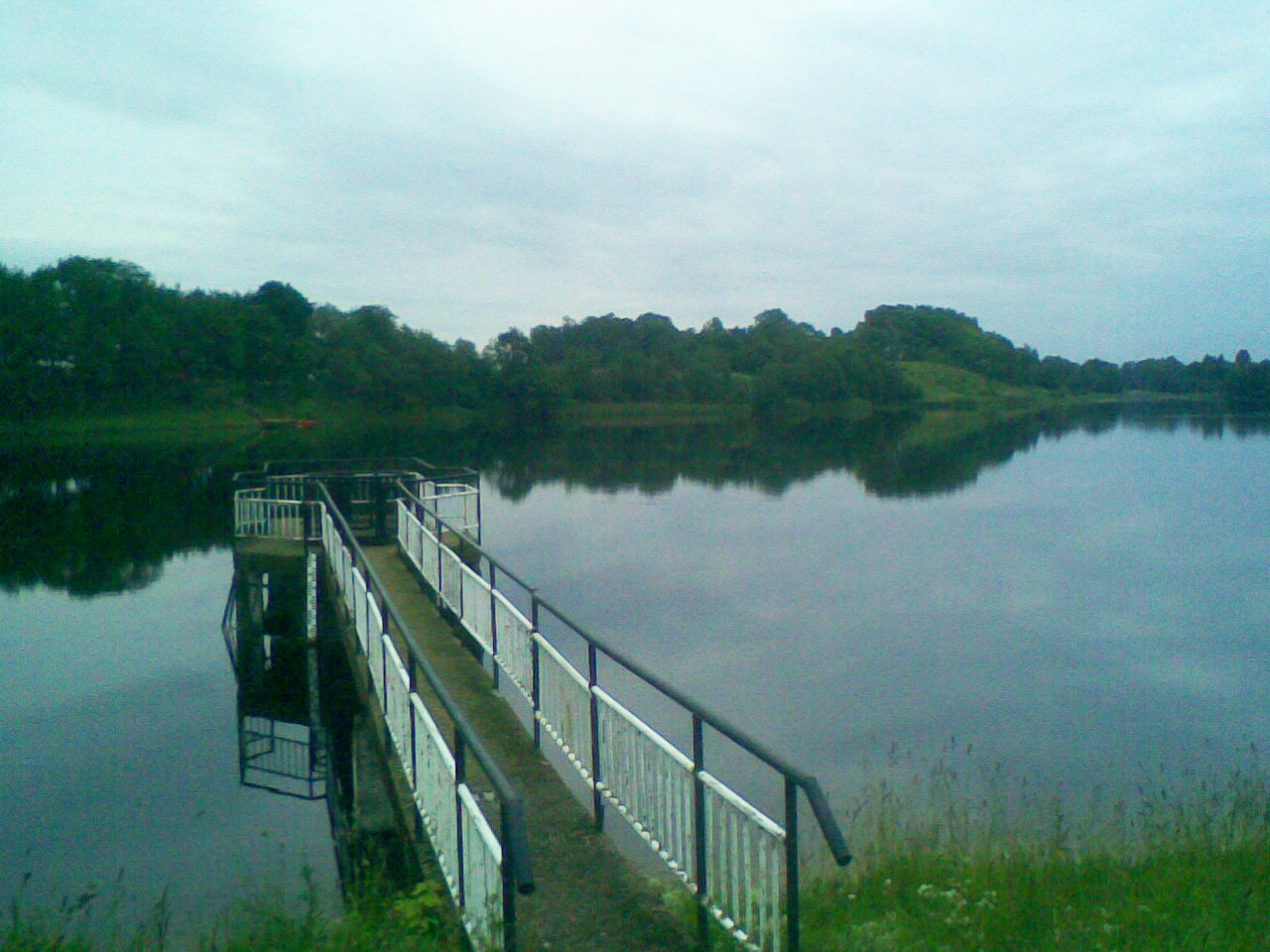 Biliakiemis lake and dam, Lithuania